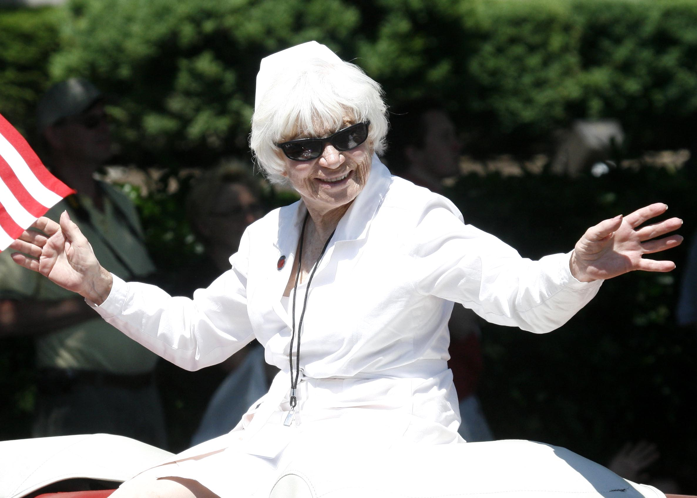 Edith Shain, from the famous V–J day in Times Square picture, at the Memorial Day Parade in Washington, D.C.